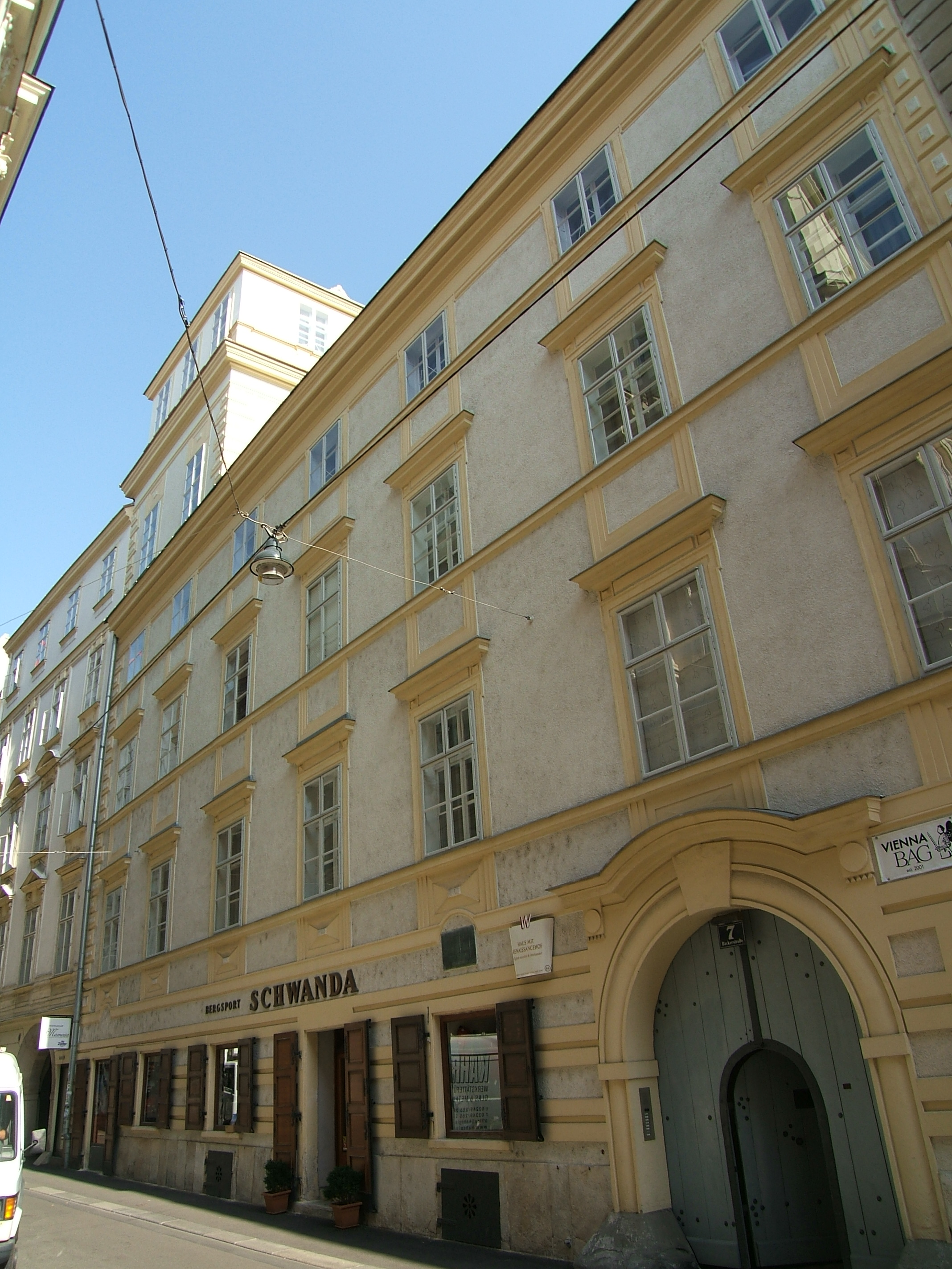 Tenement in the 1st district of Vienna, Bäckerstraße 7